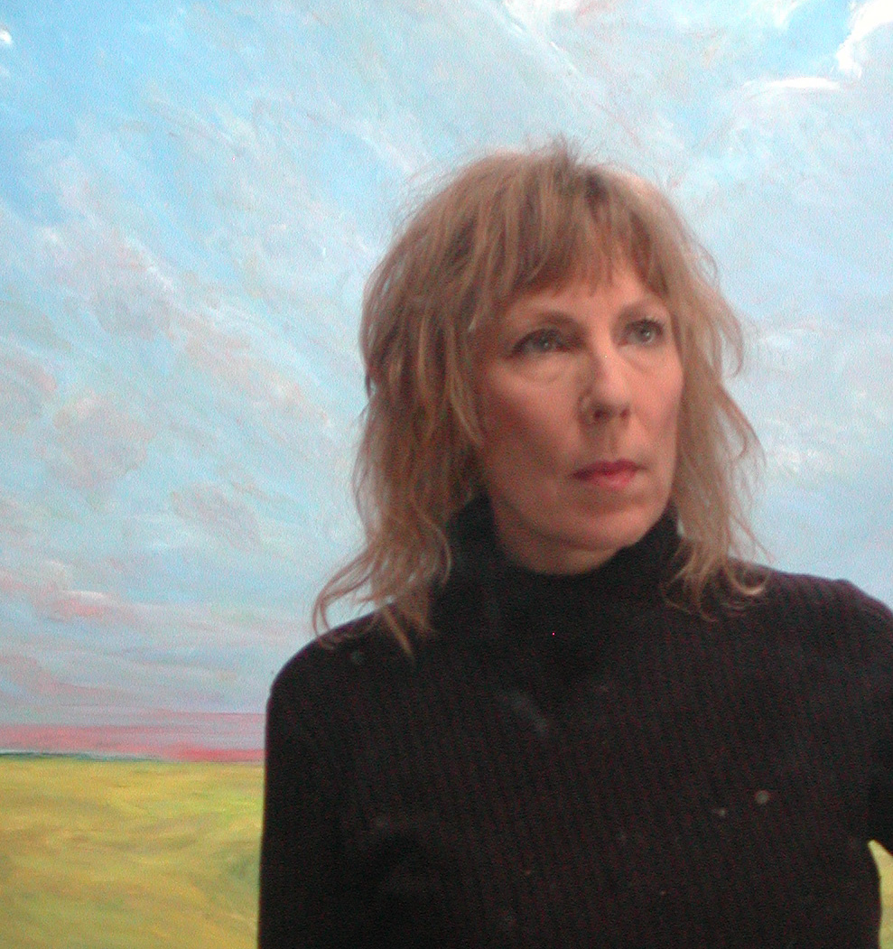 Artist Rae Johnson in her studio in 2018